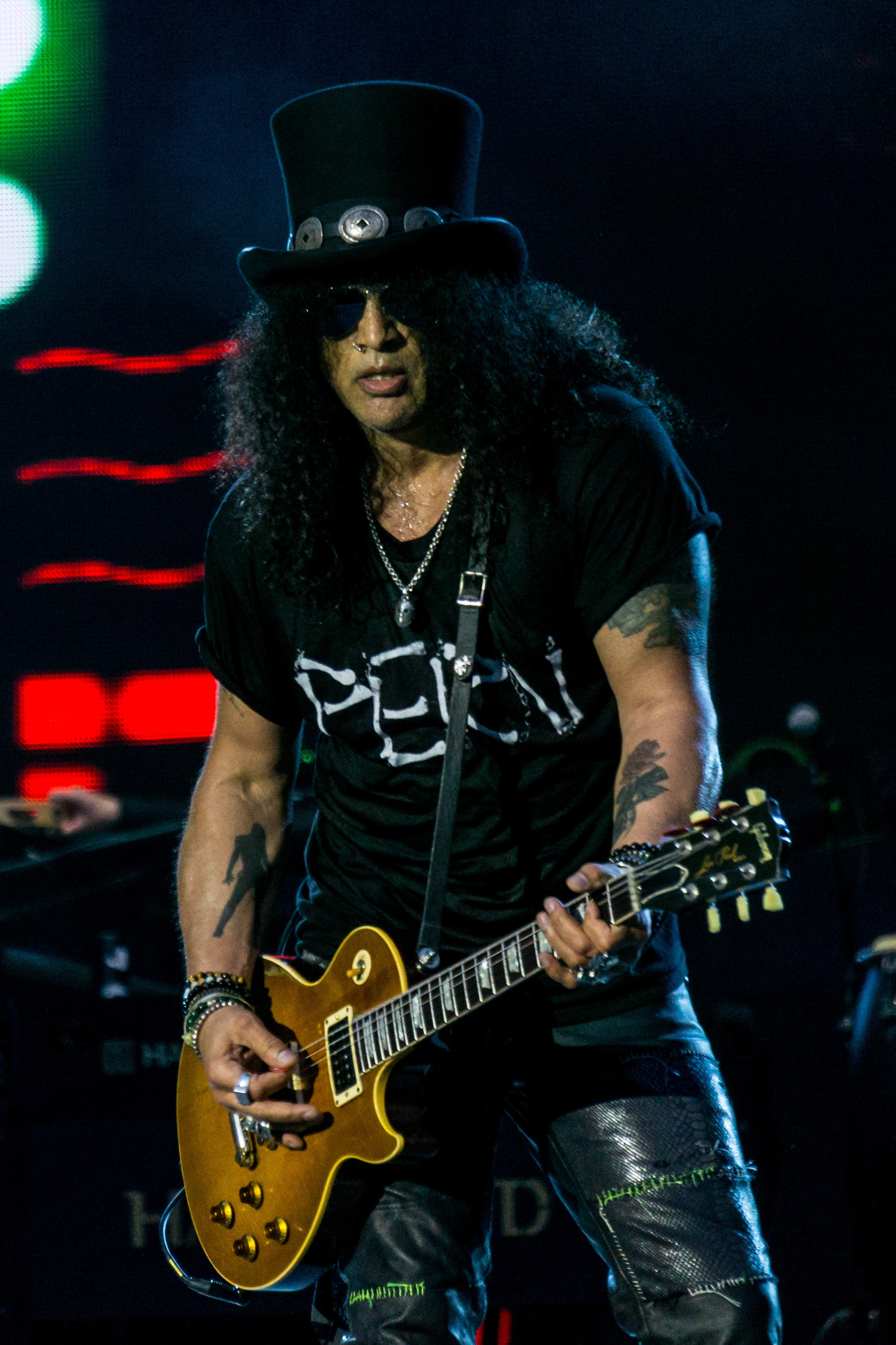 GunsNRoses160617-41